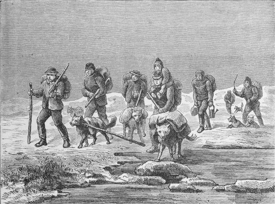 Schwatka's expedition in search of John Franklin. July 25 - August 3, 1879 (Heinrich Klutschak)